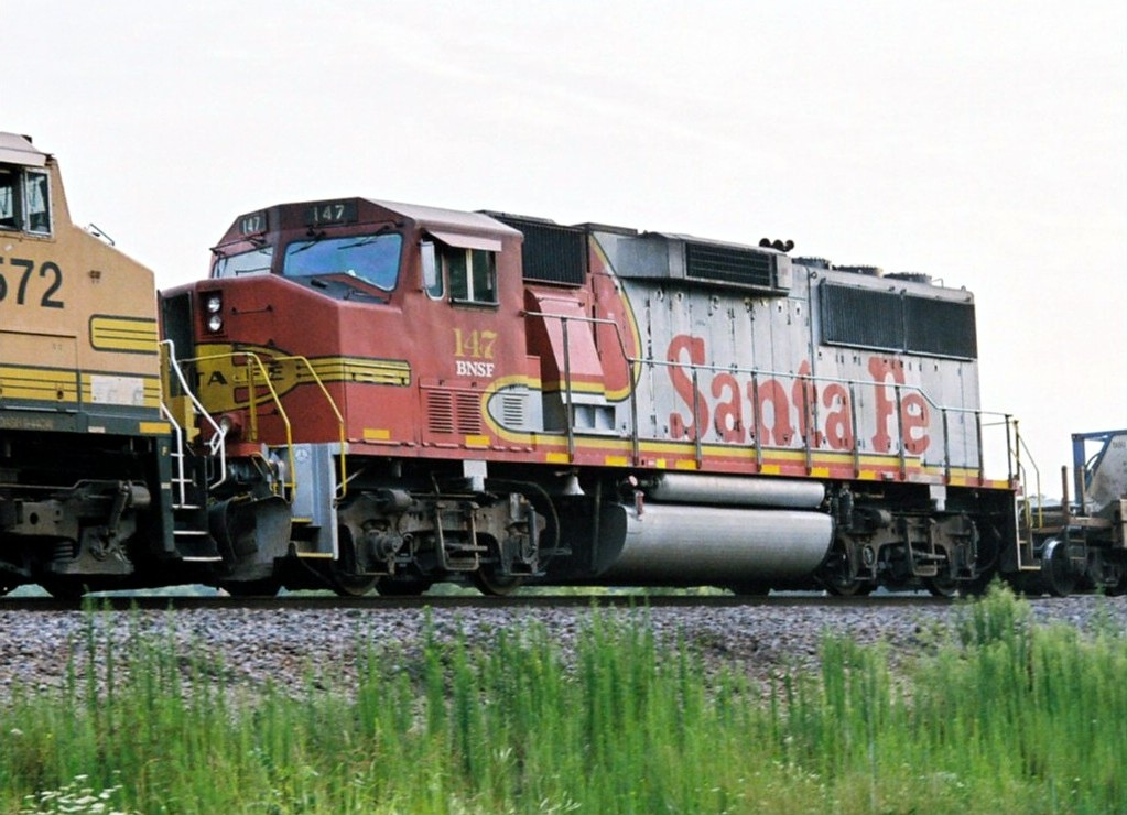 Burlington Northern Santa Fe 147, EMD GP60M